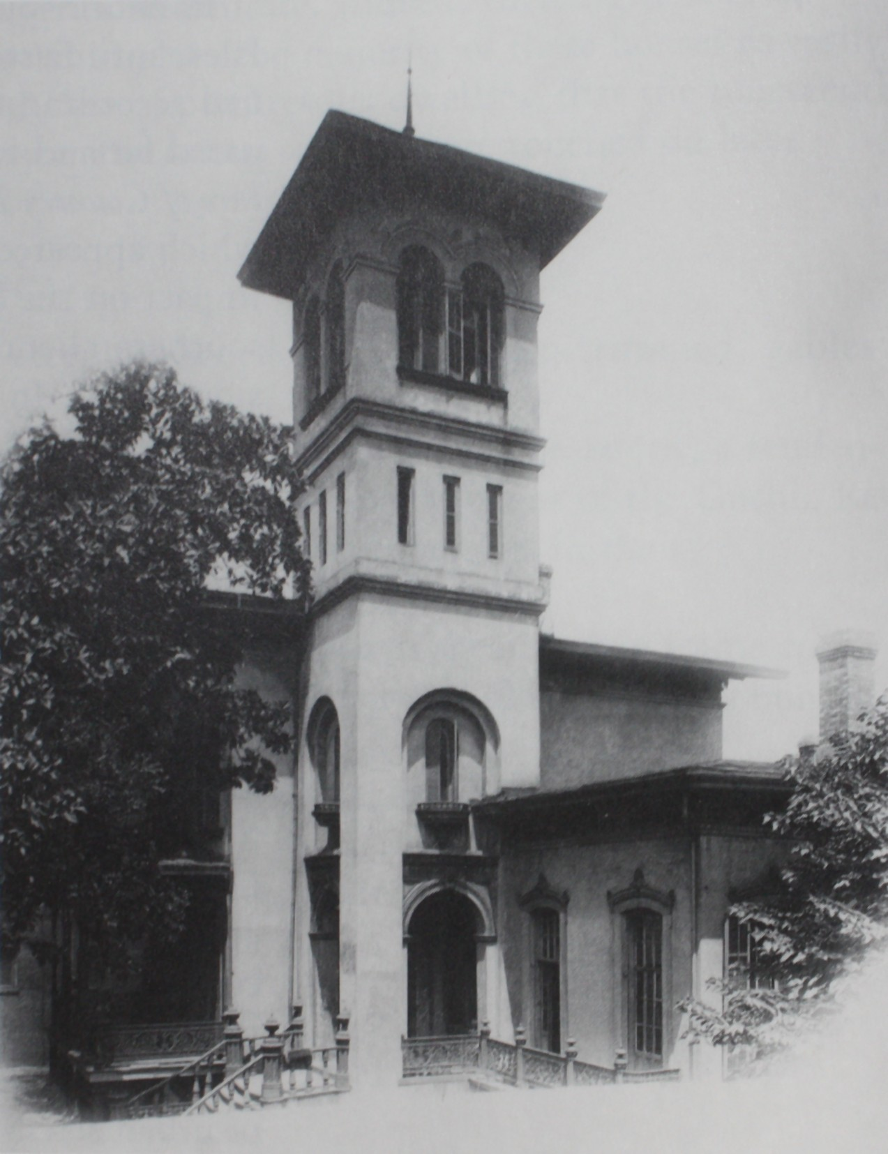 Home of Joseph S. Winter in Montgomery, Alabama. It was designed for Winter in 1851 by Samuel Sloan and completed a few years later. It was mentioned by Sloan in his The Model Architect. It was later destroyed. Sloan is believed to have also designed Winter's next home in Montgomery, Winter Place.